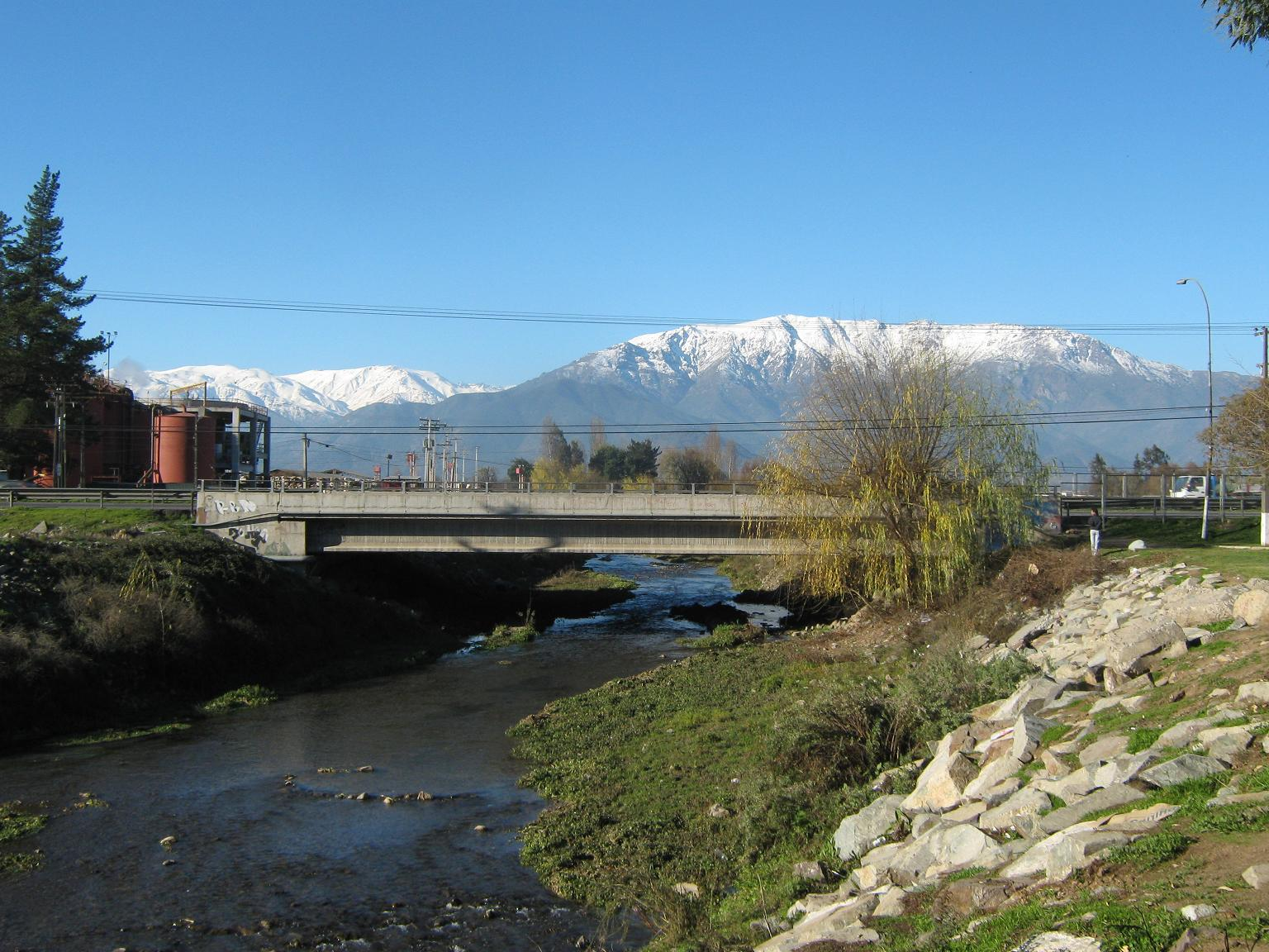 Creek on Sn Francisco (Mostazal) and biomase plant CPP, Longitudinal Sur Km. 63.